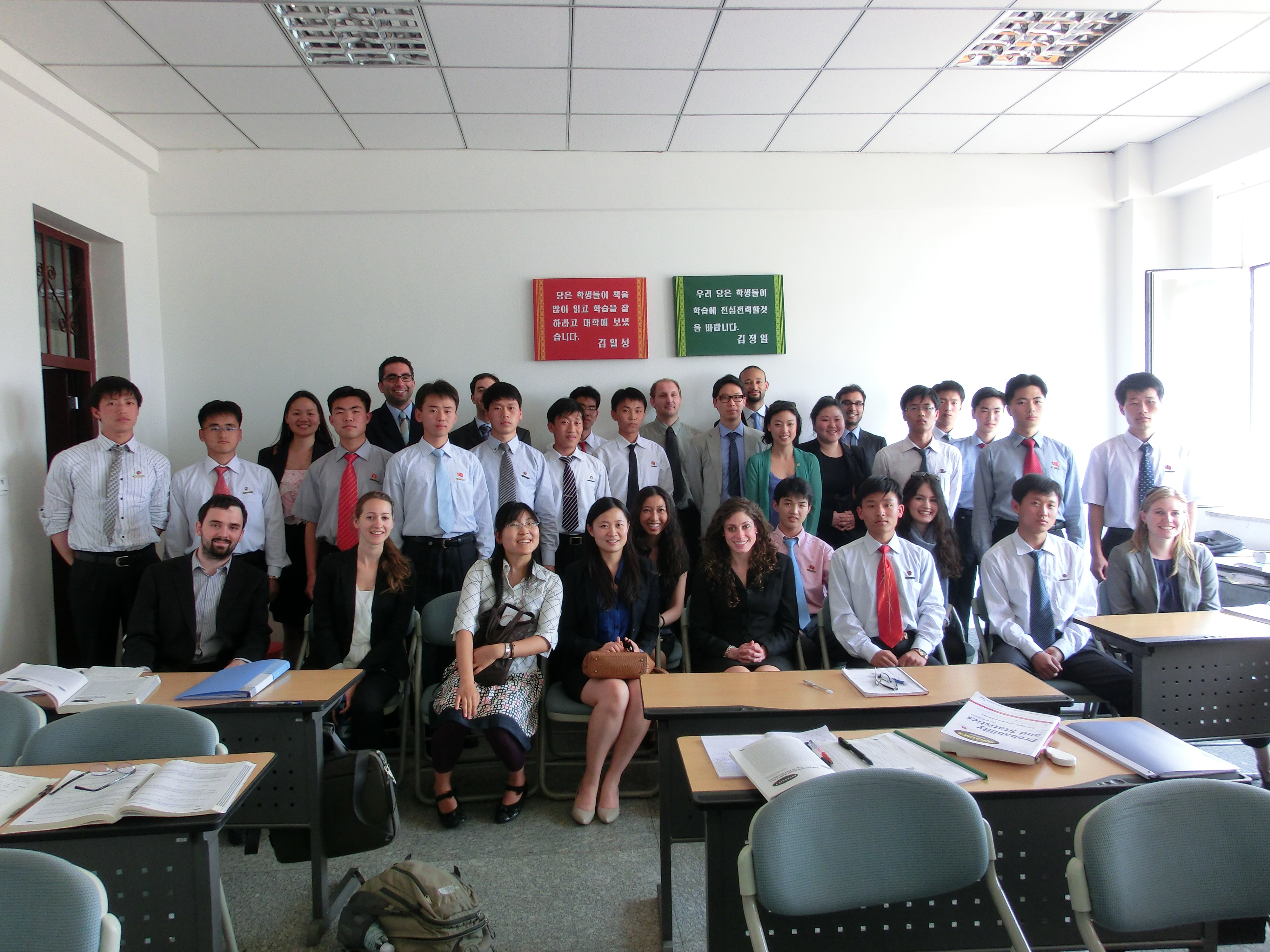 In a trip arranged by Uri Tours, Columbia SIPA students met with students at the Pyongyang University of Science and Technology in North Korea, DPRK. This picture was taken during a math class of Prof. Dr. Jerome Philippe COSS, Ph.D.